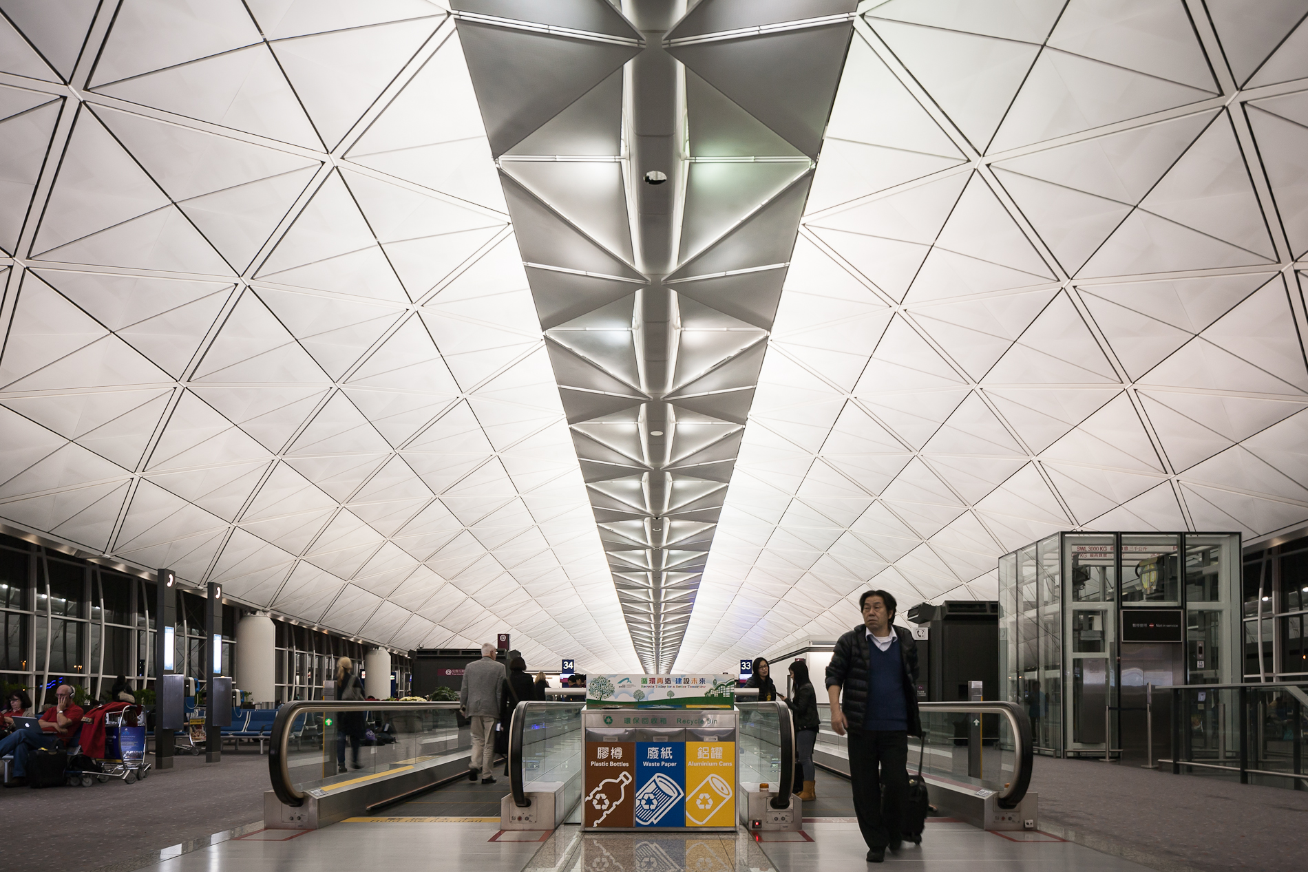 Interior of terminal 1, Hong Kong International Airport.